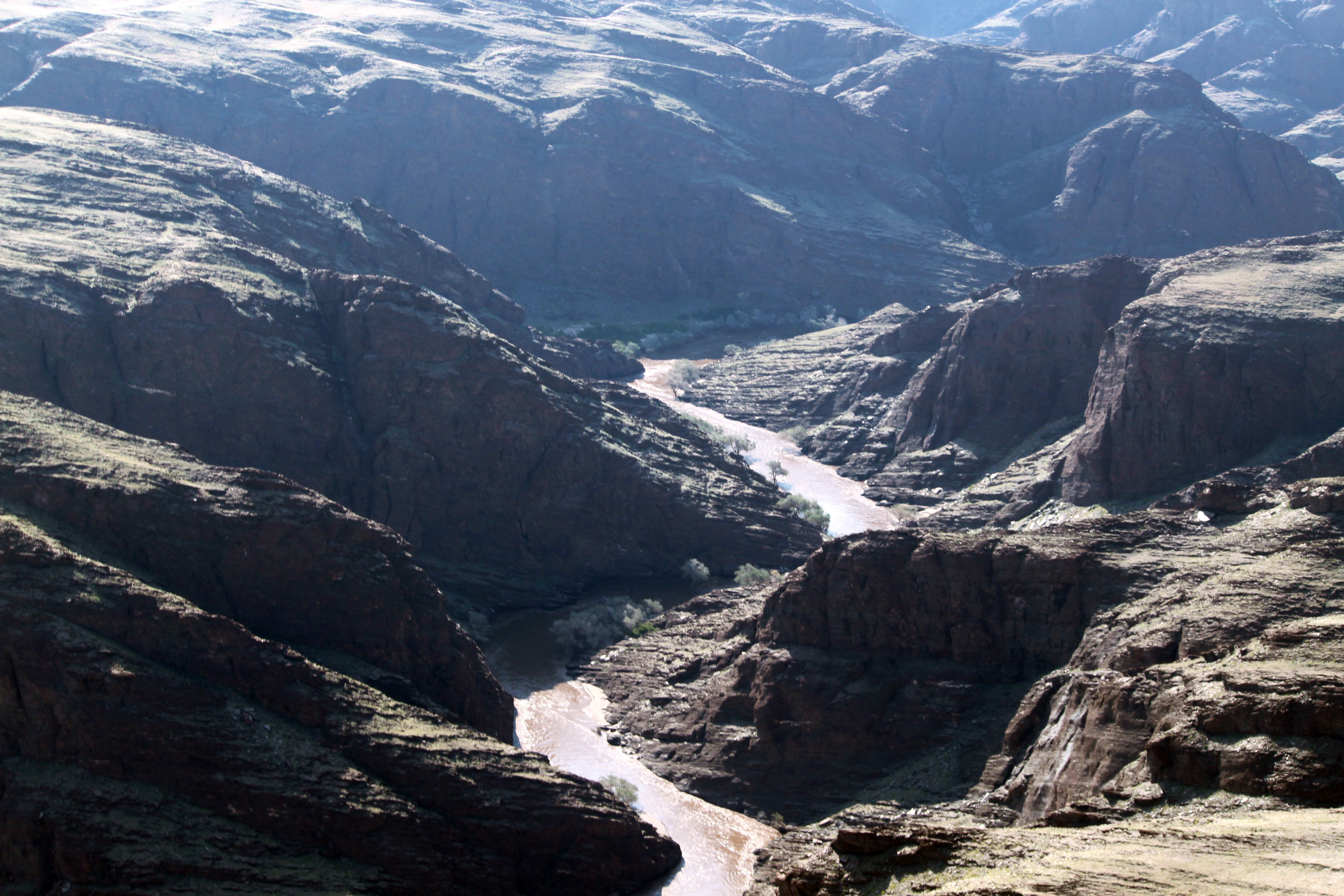 Kuiseb Canyon, Namibia